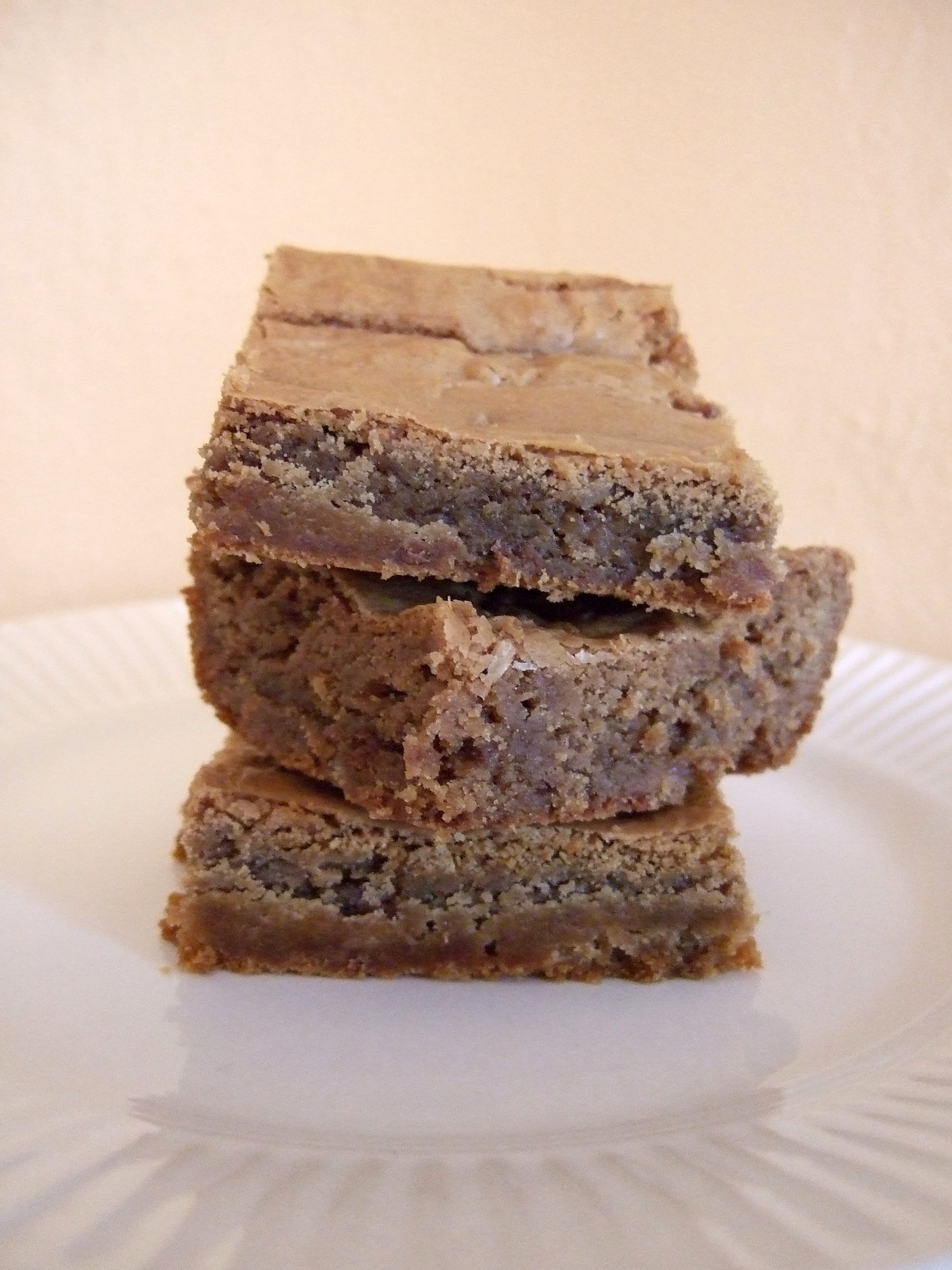 These might be the best blondies I've ever made. Next time, though, I'm going to add a bit of espresso powder to the recipe to give them a bit of a kick.